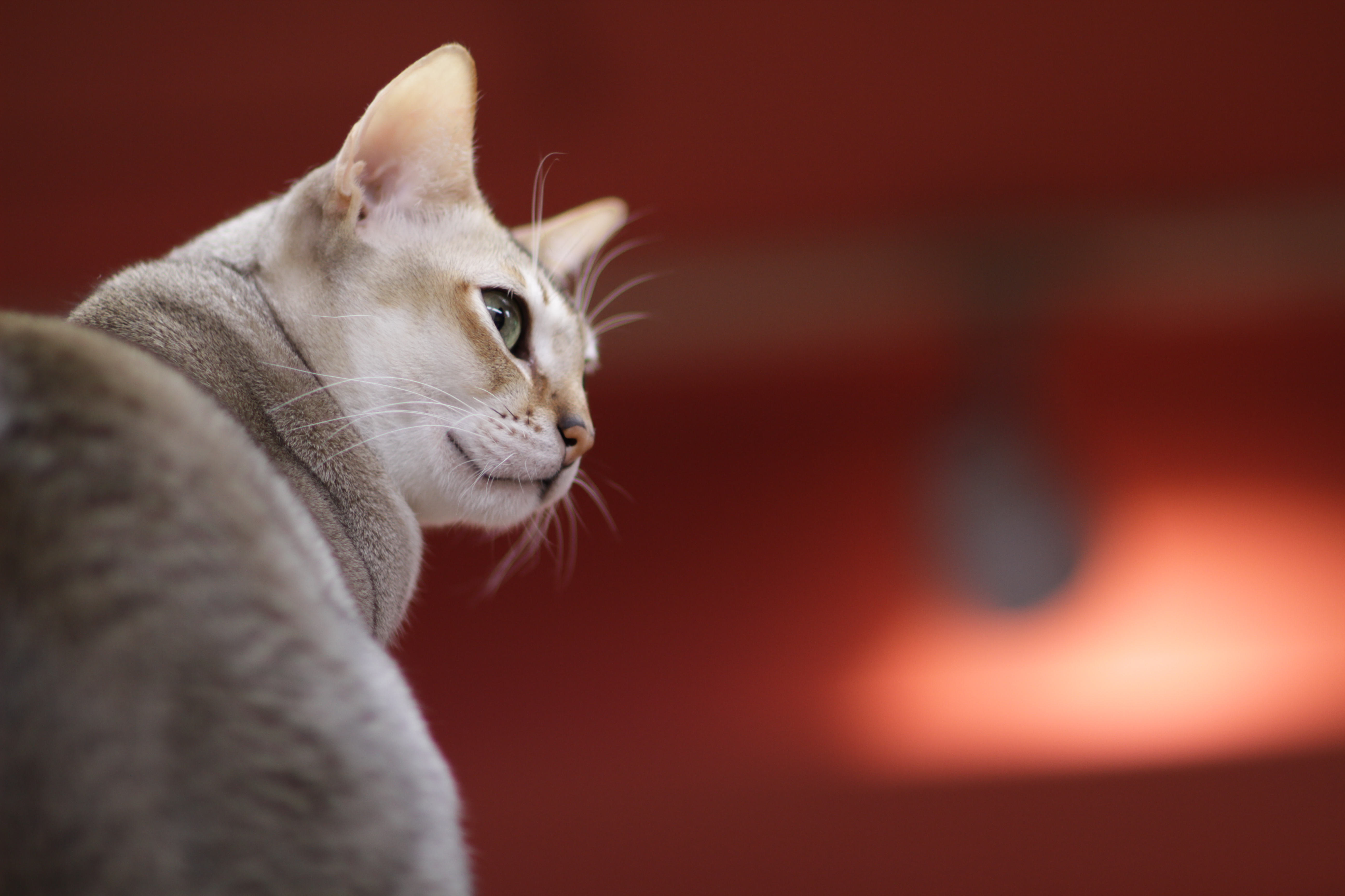 Here is the info of the cat: Name: Rusk Type: Singapura Gender: Male This photo is taken at cat cafe called "Nekobukuro" Canon EOS 7D + Canon EF 85mm F1.2L II USM